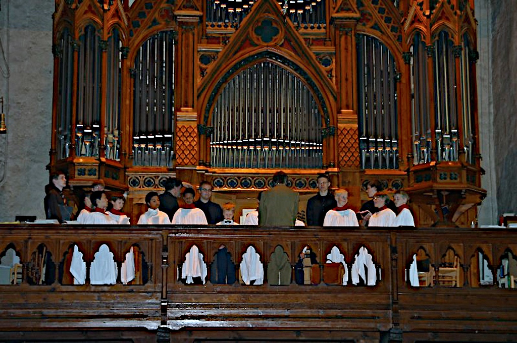 The organ at Bergen Cathedral (Bergen Domkirke) in Bergen, Norway. From Rieger Orgelbau, description